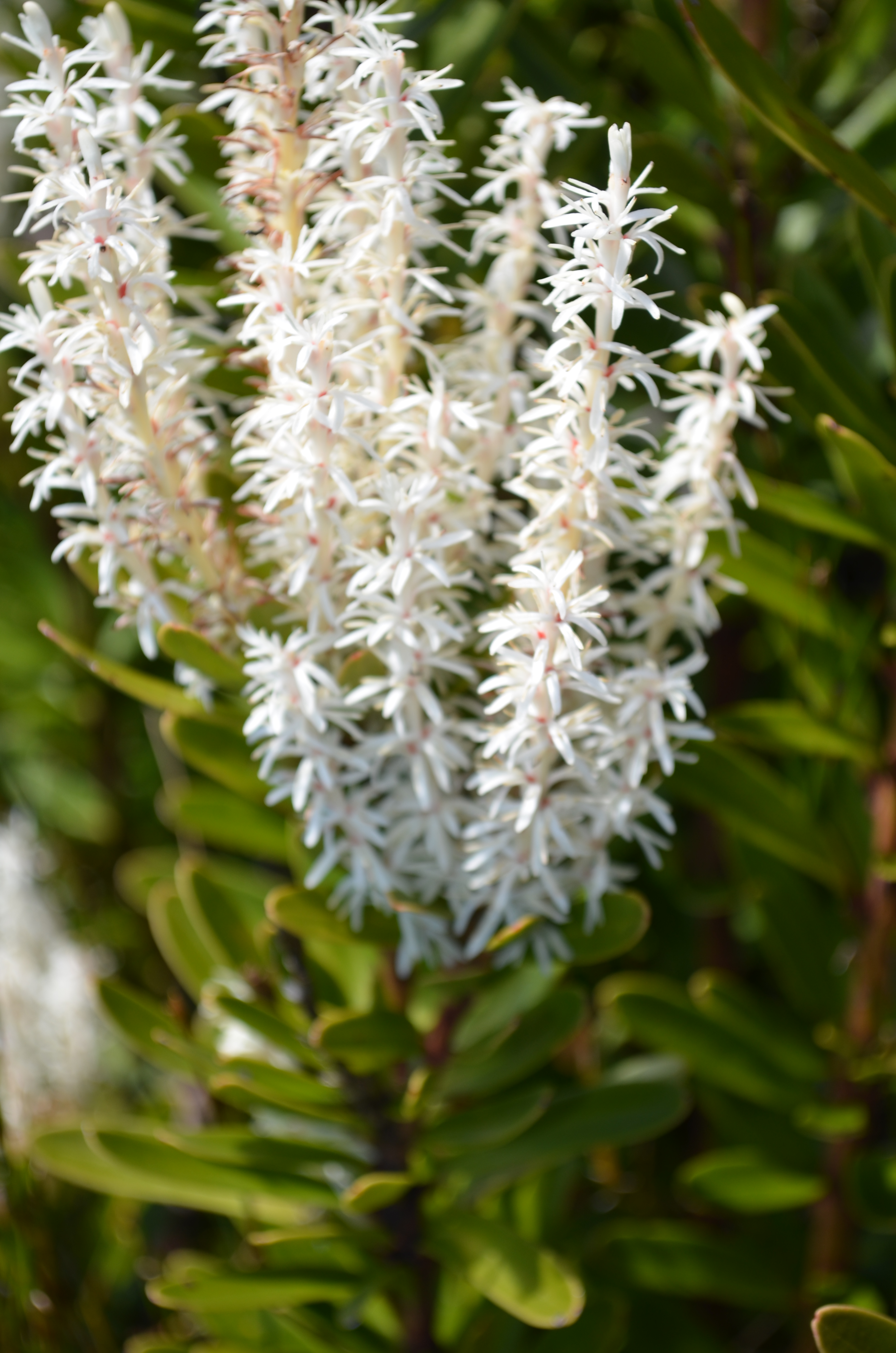 Agastachys odorata